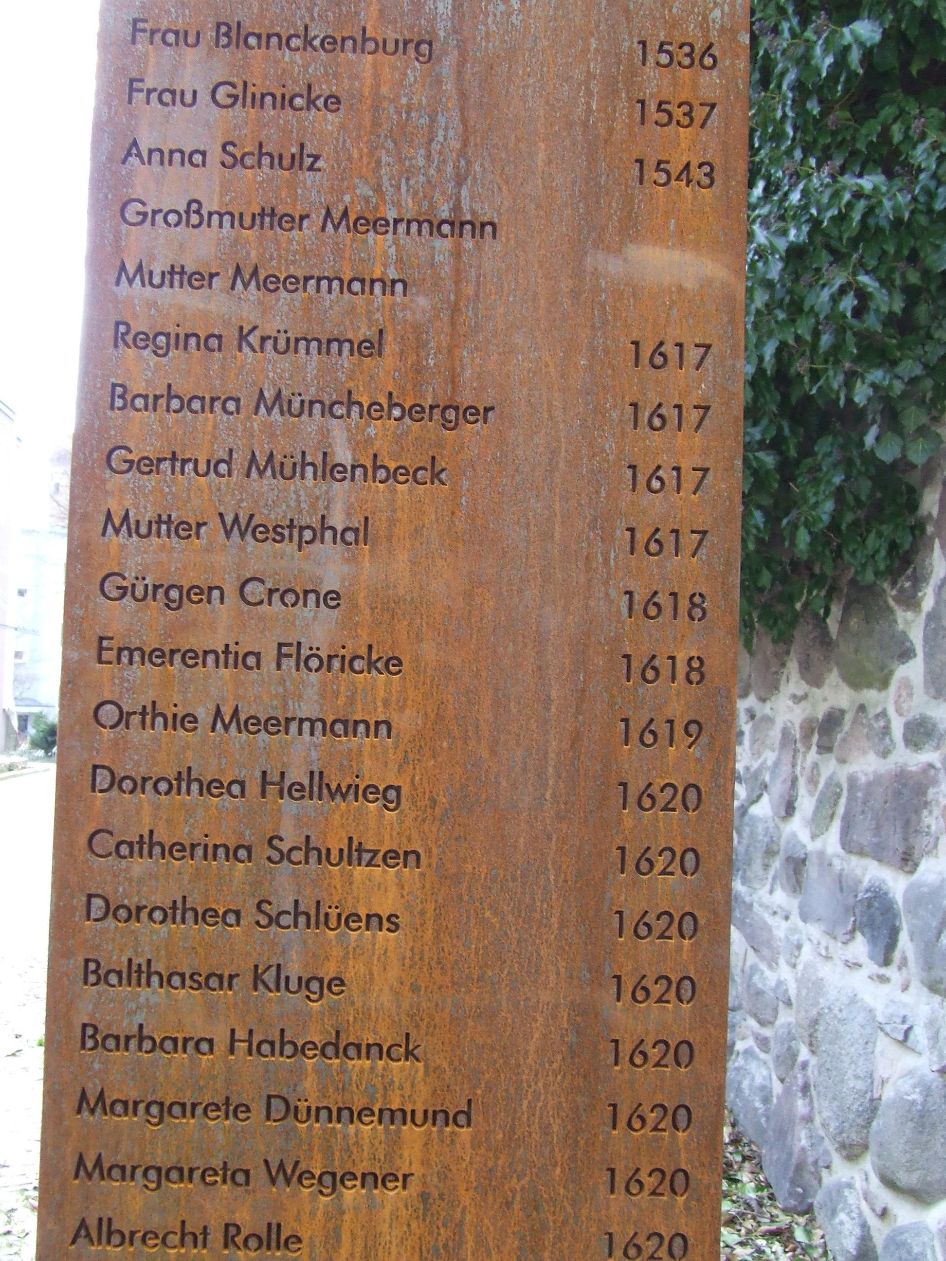 Memorial of the witches in Bernau bei Berlin (part one of the names).